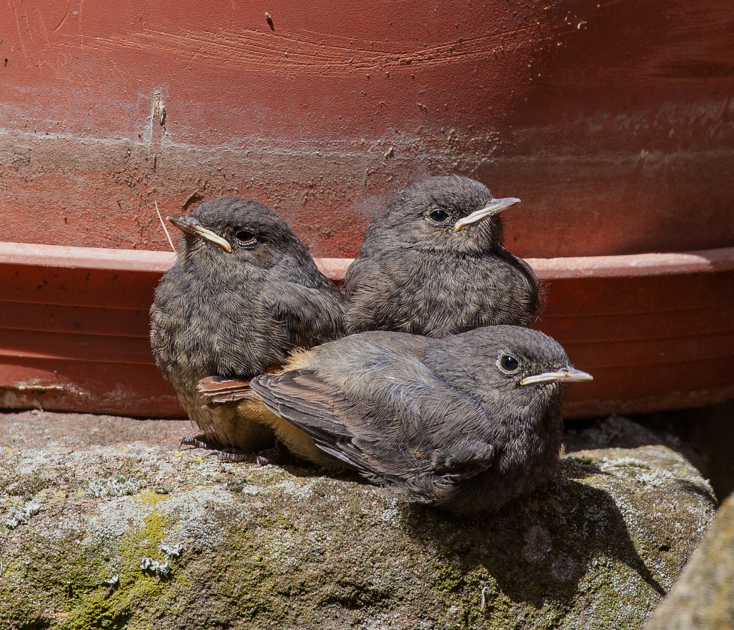 Redstart youngsters